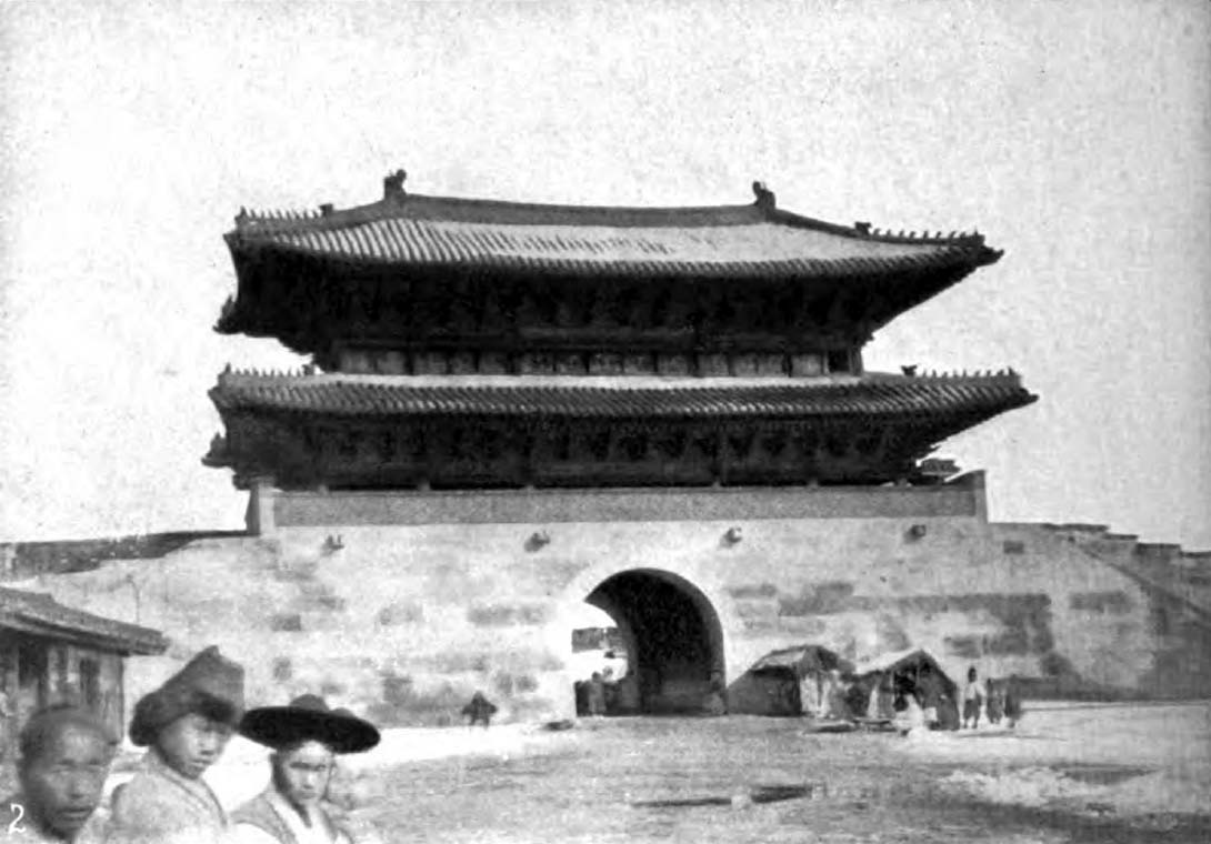 Photograph of East Gate of palace grounds in Seoul, Korea